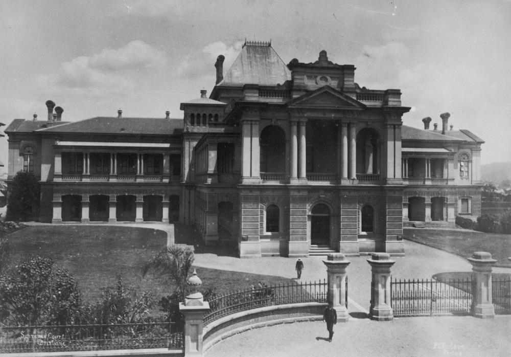 Supreme Court building, Brisbane, ca. 1891. Supreme Court viewed from the George street side. F. D. G. Stanley, the Colonial Architect for Queensland until 1881, designed the Supreme Court Building which was erected in the period between 1876 and 1879 by the Petrie Constuction Company.